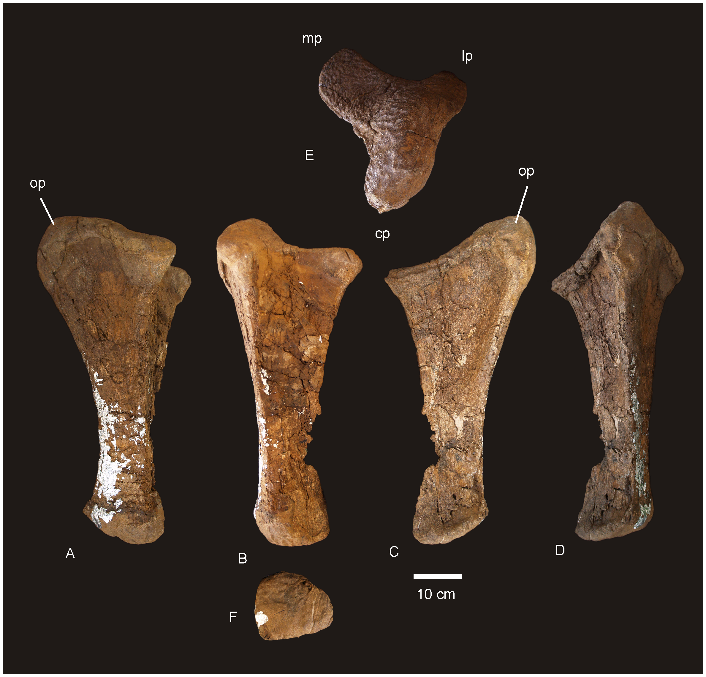 Ulna of Diamantinasaurus matildae. Right ulna in lateral (A), anterior (B), medial (C), posterior (D), proximal (E) and distal (F) views. Abbreviations: cp, caudal process; lp, lateral process; mp, medial process; op, olecranon process.